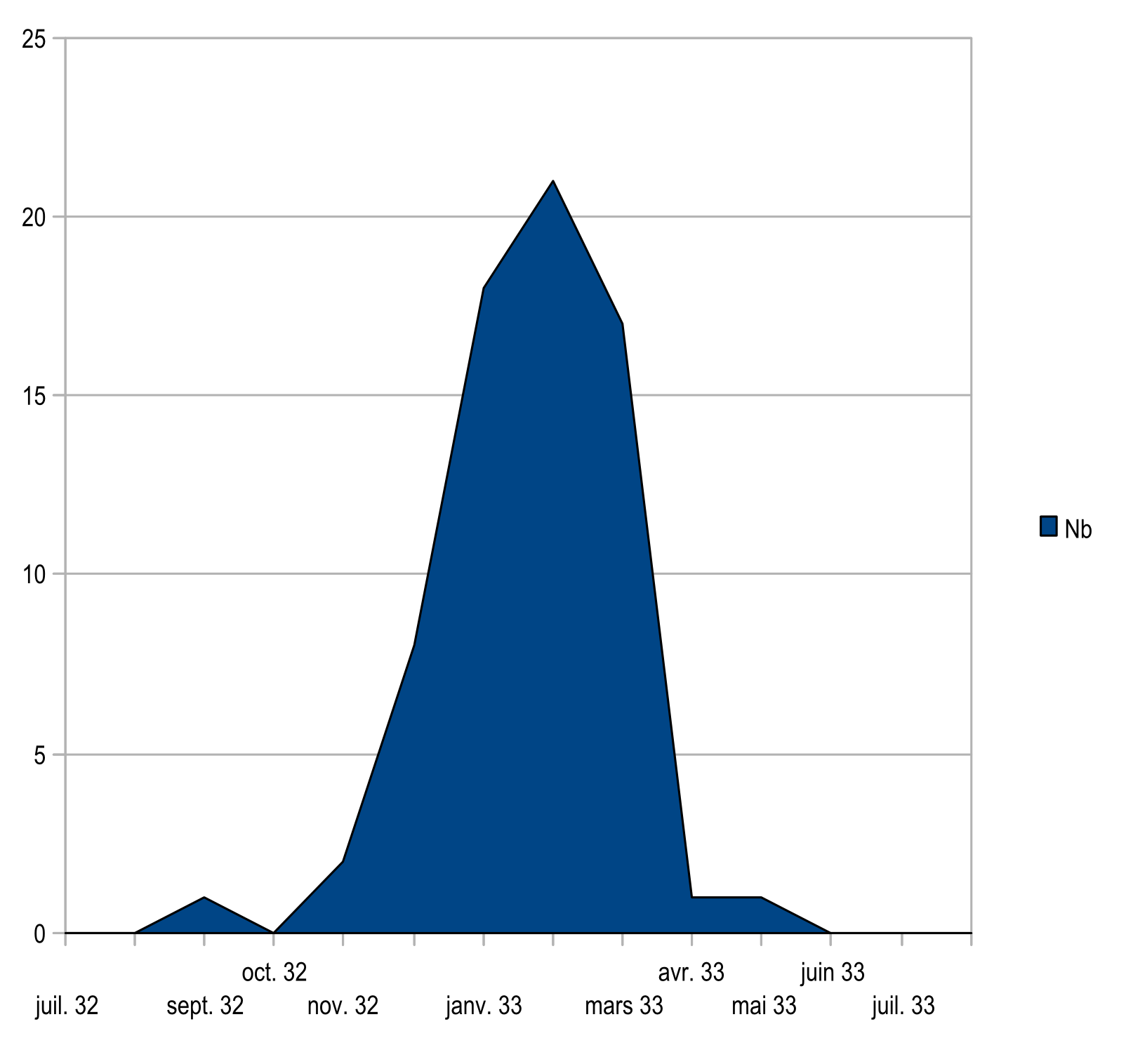 Periodical articles on Technocracy, according to David Adair, The Technocrats 1919-1967 : a case study of conflict and change in a social movement, Thèse universitaire Simon Fraser University, 1970, p. 27